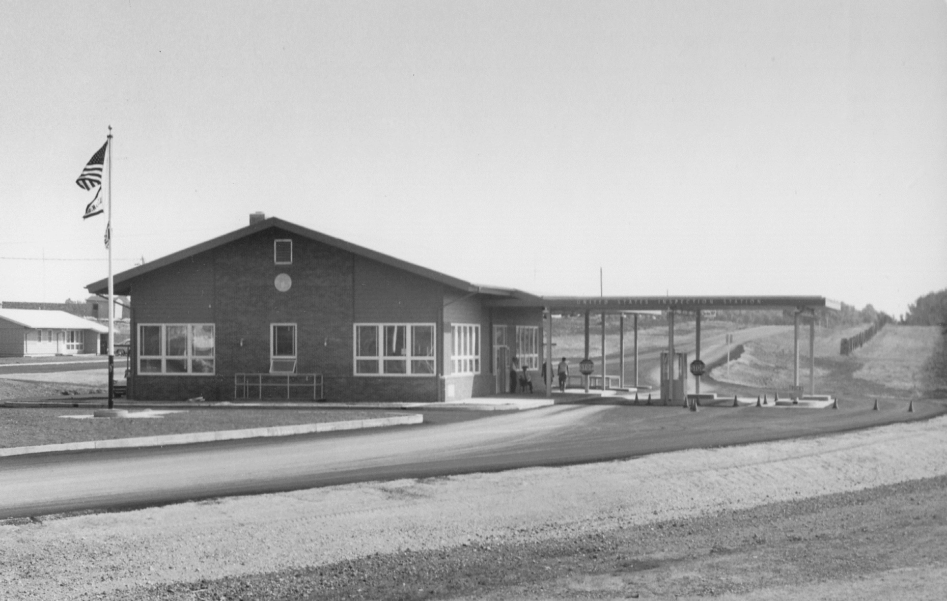 US border inspection station at Dunseith North Dakota as seen in 1961